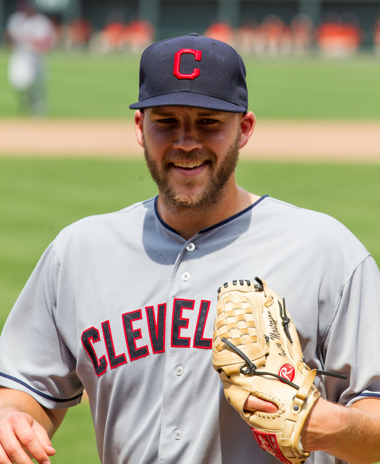 Indians at Orioles July 1, 2012